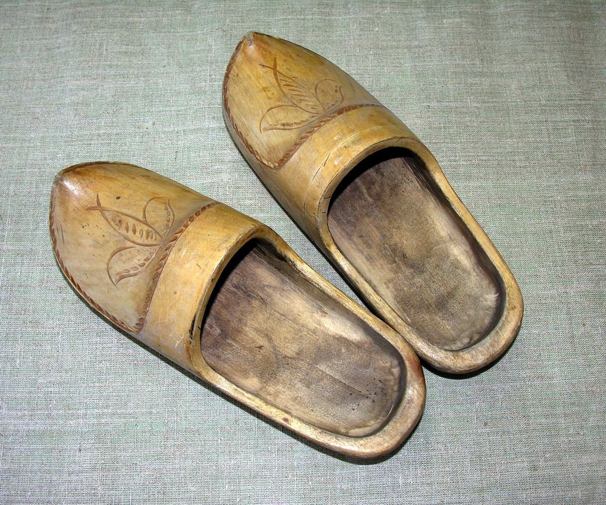 Clogs are a type of footwear